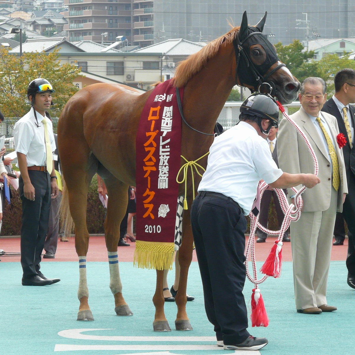 Animate-Bio20100919